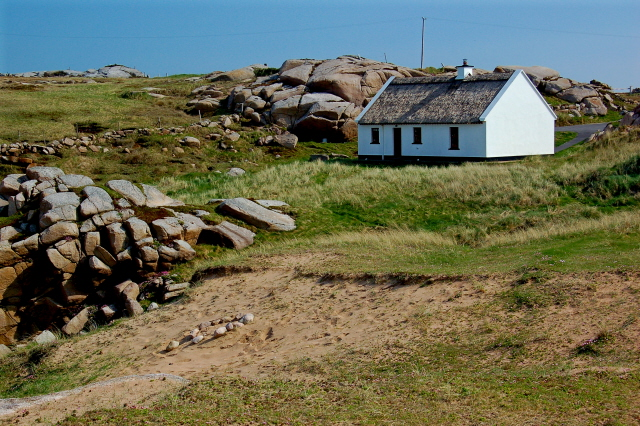 Cruit Island - 1 of 10 Donegal Thatched Roof Cottages This is the most notherly cottage.